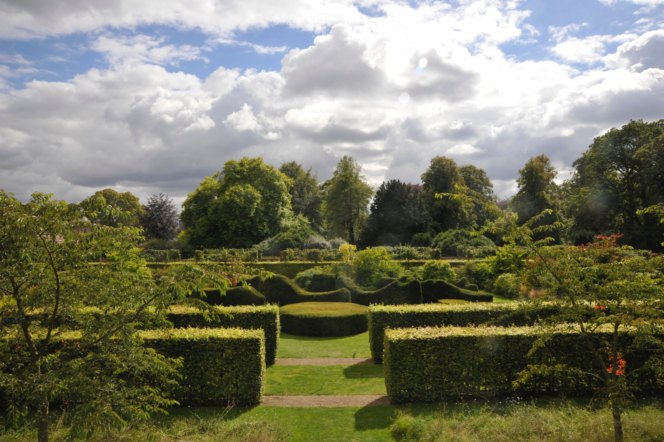 Scampston Walled Garden, Scampston, UK